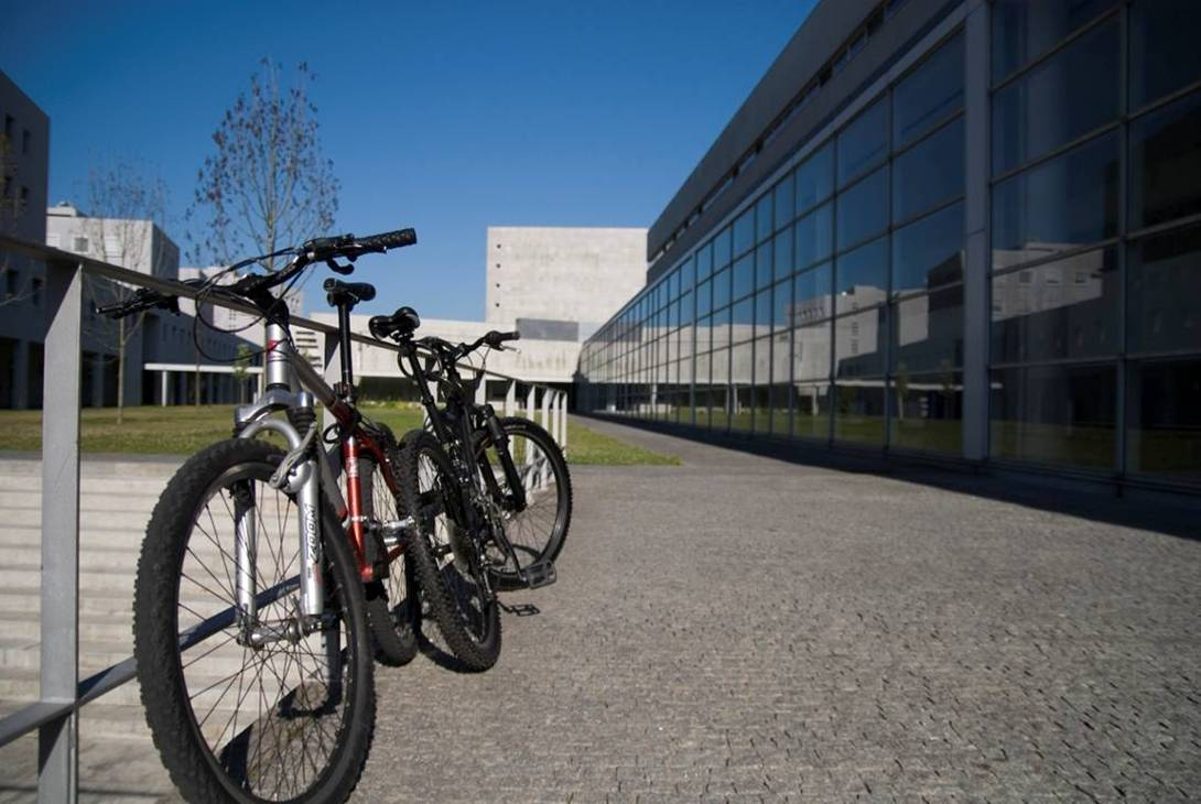 U.Porto's building at Pole 3 (Asprela).